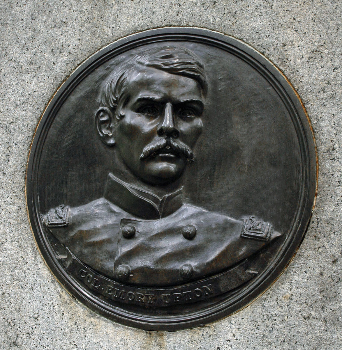 Portrait of Emory Upton on the 121st New York monument at Gettysburg National Military Park.